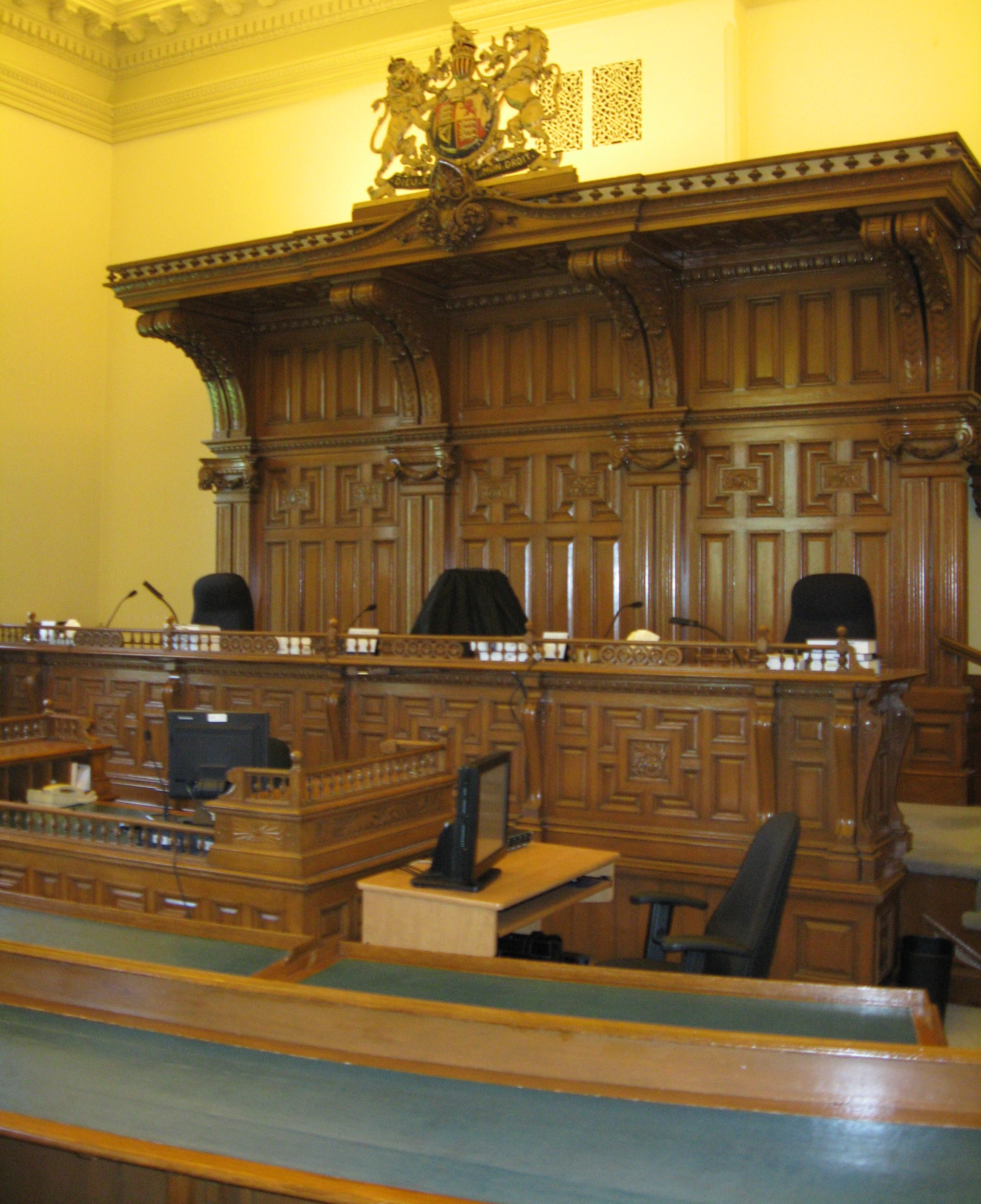 A courtroom (#2) at Osgoode Hall, used by the Ontario Court of Appeal. In Toronto, Canada.